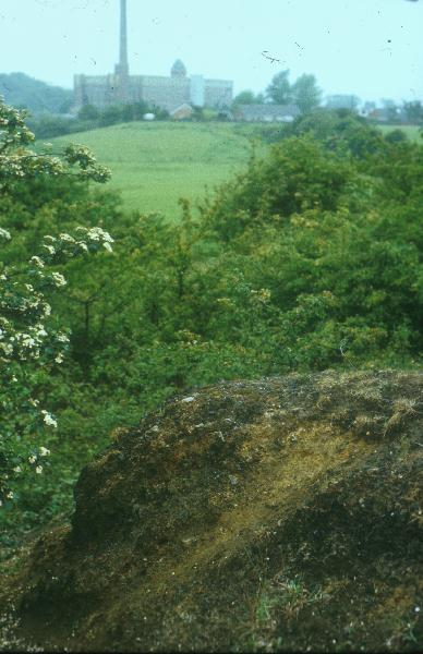 Leblance process waste at Nob End Bolton, as a cliff over the river Irwell, with cotton mill in background